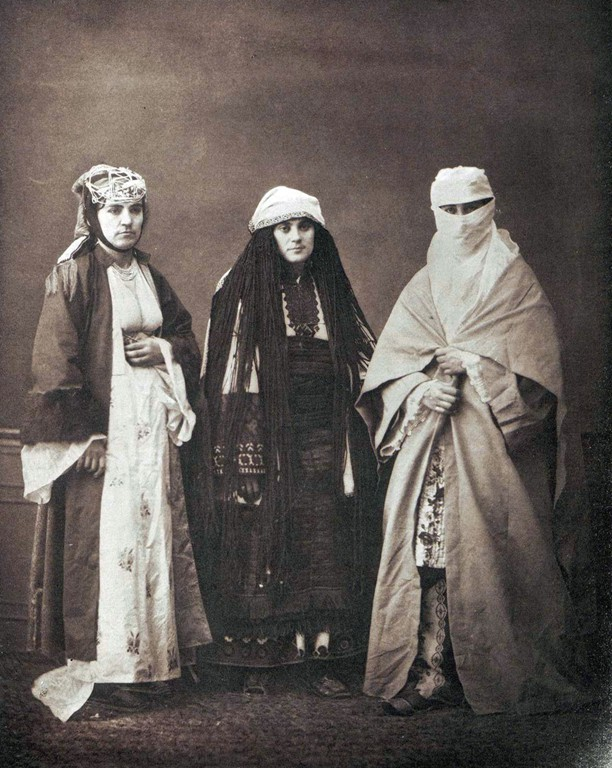 (1. right) Muslim woman from Salonica; (2. left) Jewish woman from Salonica; (3. centre) Bulgarian woman from Prilep (source: Les Costumes populaires de la Turquie en 1873, Constantinople 1873, plate 22) Photo published by Robert Elsie at